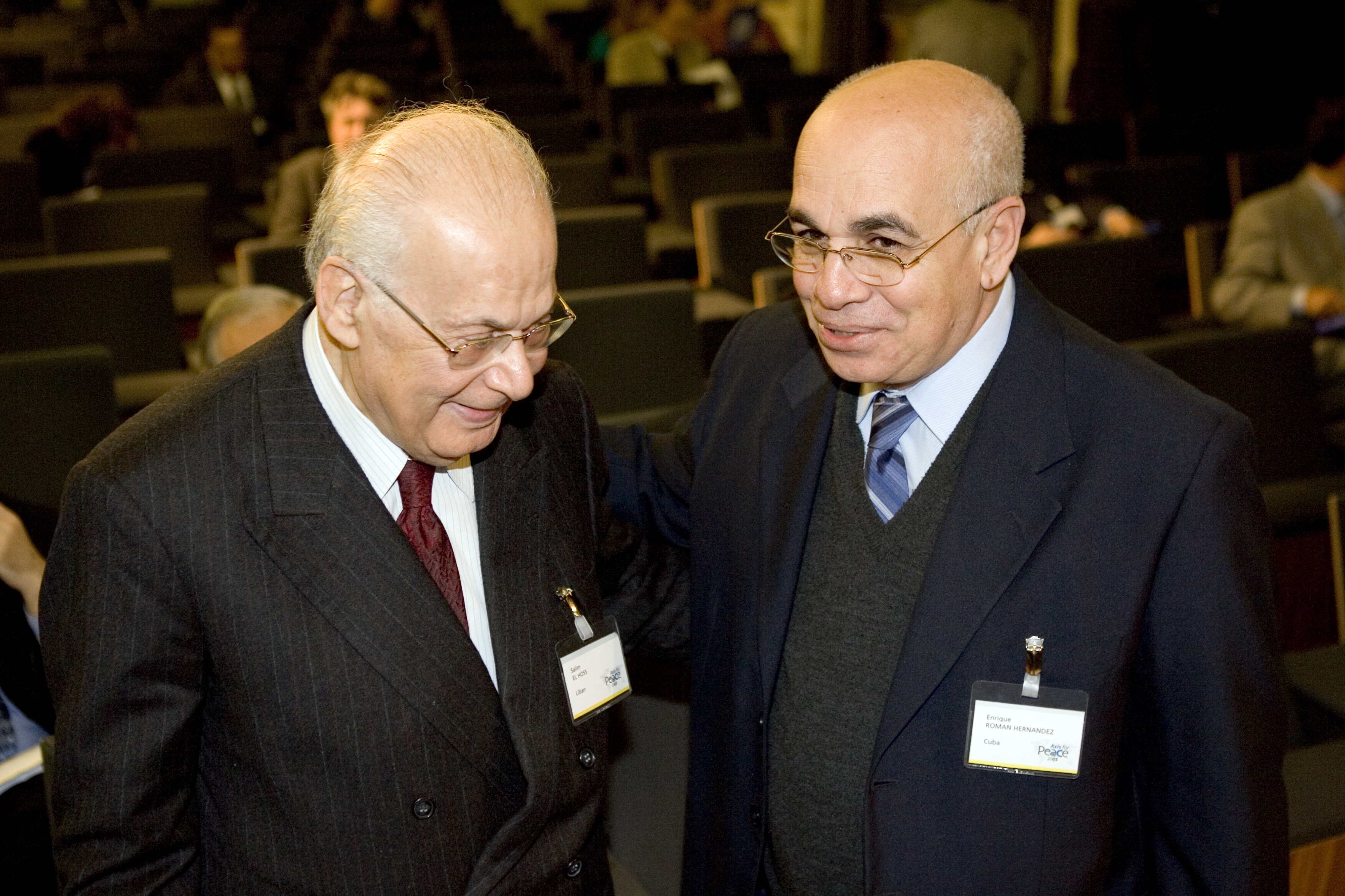 From left to right: Salim el-Hoss, former Prime Minister of Lebanon, and Enrique Román Hernández, Cuban journalist and diplomar, at the 2005 Axis for Peace conference.